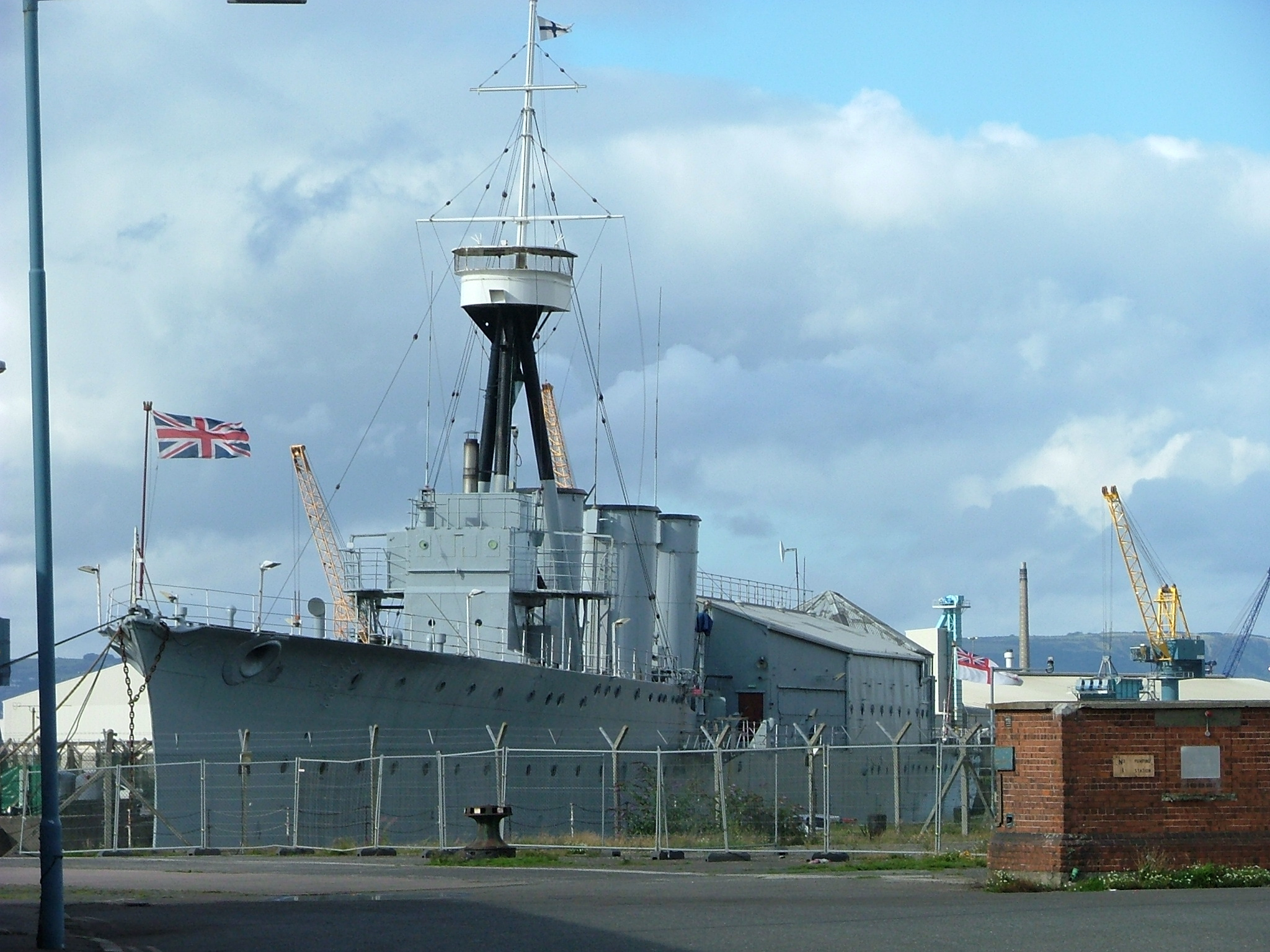 This is HMS Caroline (1914) in the Titanic Quarter, Belfast.